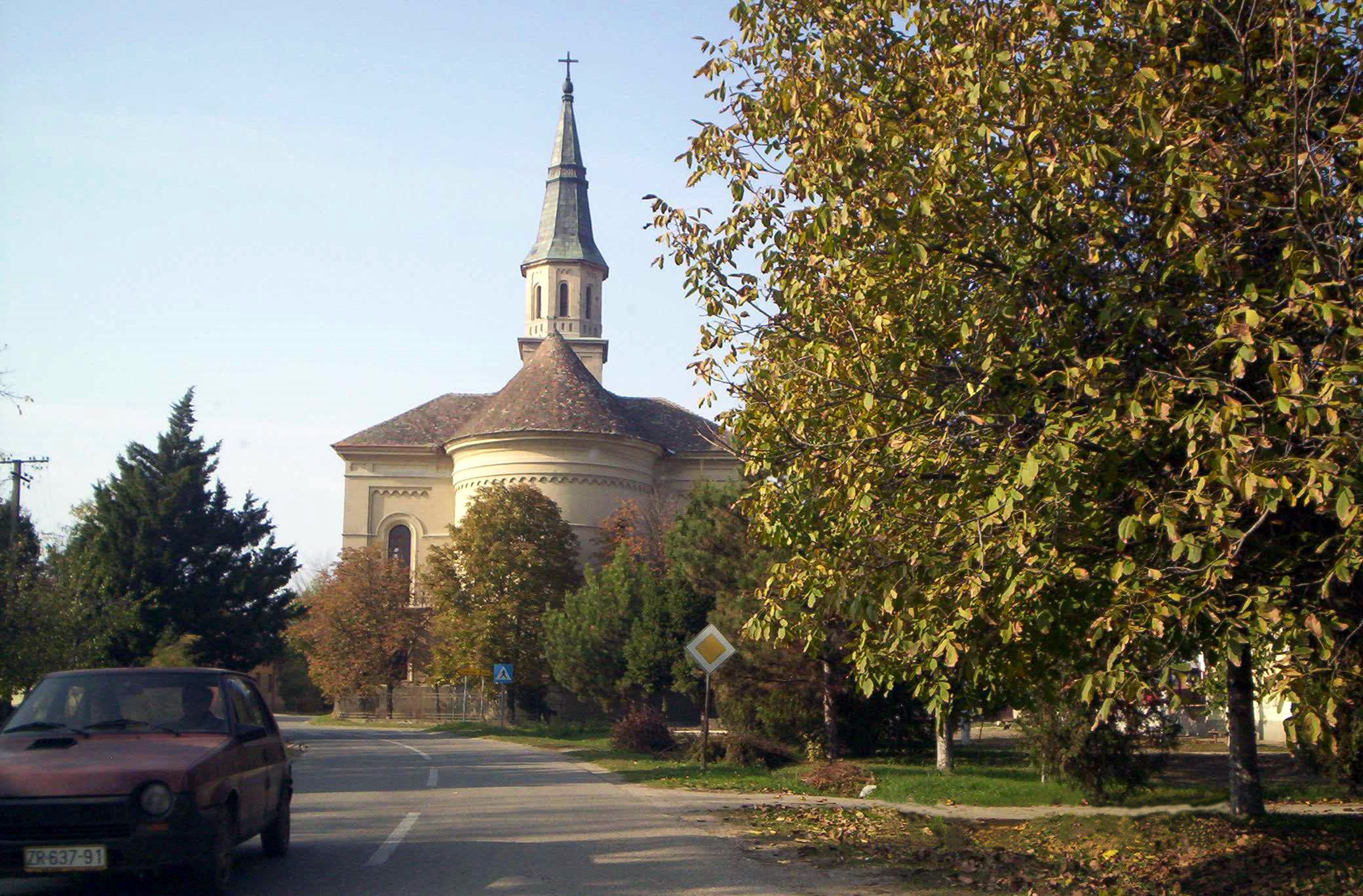 Catholic church in Ečka in neo-romanic style, built in 1864.